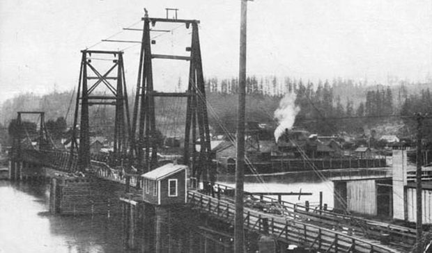 Allen Street bridge, Kelso, Washington circa 1910. Probably same image as at Cowlitz County Historical Society, identified by as: Allen Street Bridge (1906, collapsed 1923), from east bank of Cowlitz River, Kelso, ca. 1910. The bridge collapsed January 3, 1923.